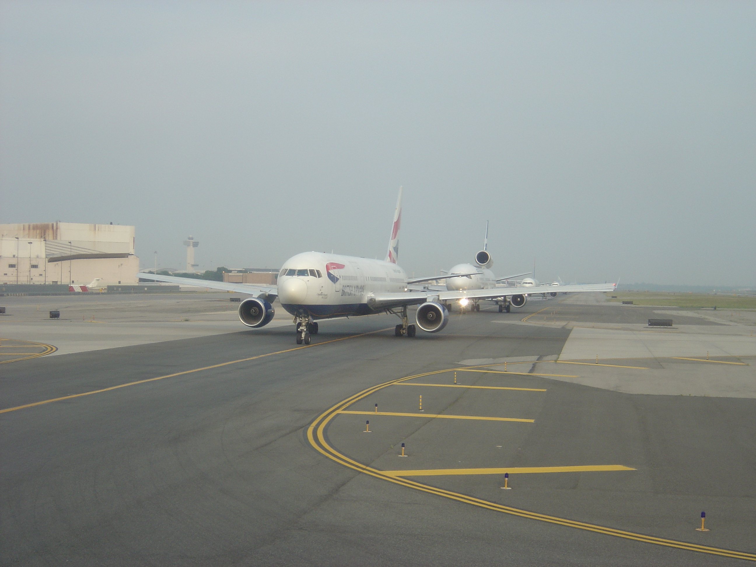 In the picture you can see some aircraft waiting for their takeoff, they couldn't start before because something was broken and had to be repaired before all aircraft could start. (NY John F. Kennedy Airport)